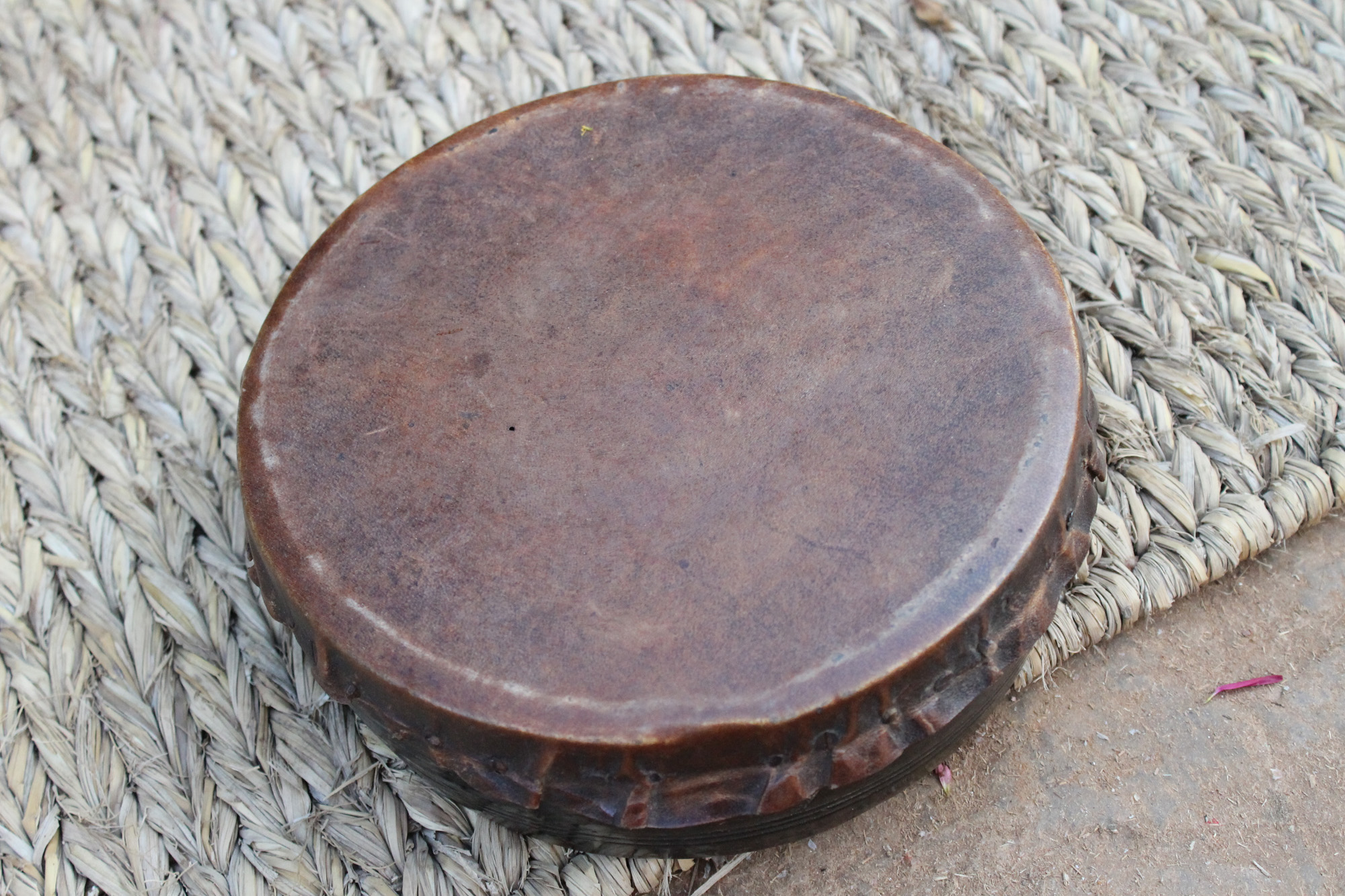 A Nepali musical instrument.